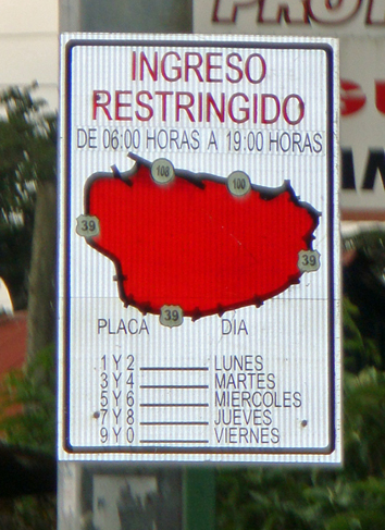 Traffic sign used in San Jose, Costa Rica, to restrict access into a cordon area (road space rationing) around the CBD based upon the last digit of the license number on pre-established work days between 6:00 to 19:00 in order to reduce traffic congestion.